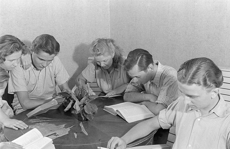 Original image description from the Deutsche Fotothek Sommer 1947 und Nov. 1948